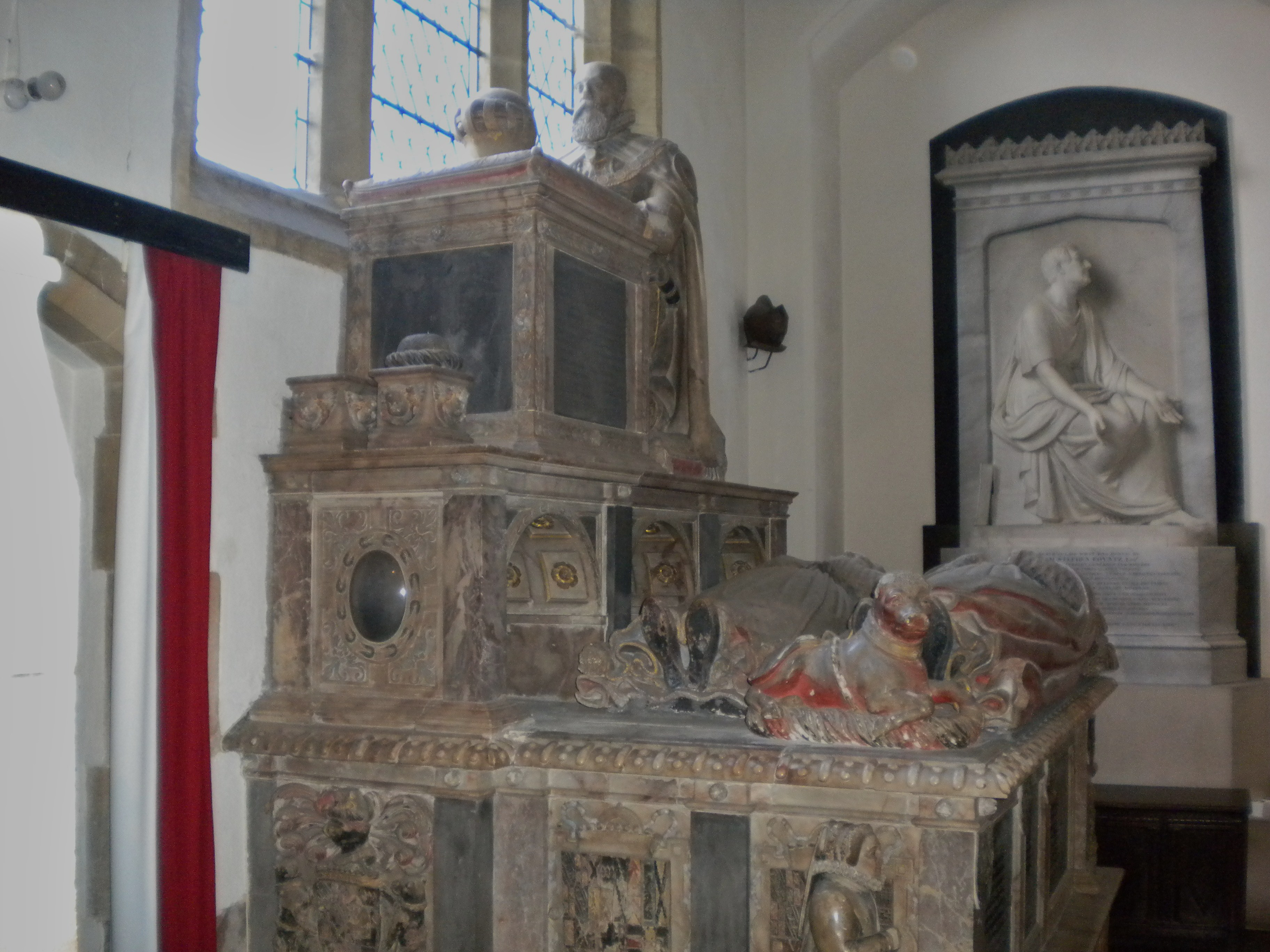 Monument in St Mary's parish church, Easebourne, West Sussex, England, to Anthony Browne (1528–92), 1st Viscount Montagu and his two wives